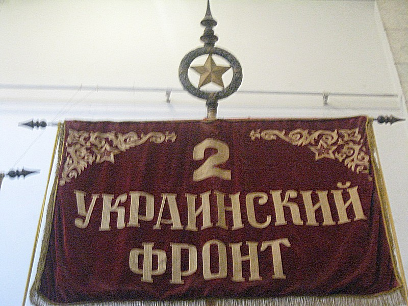 Regimental colours of the 2nd Ukrainian Front